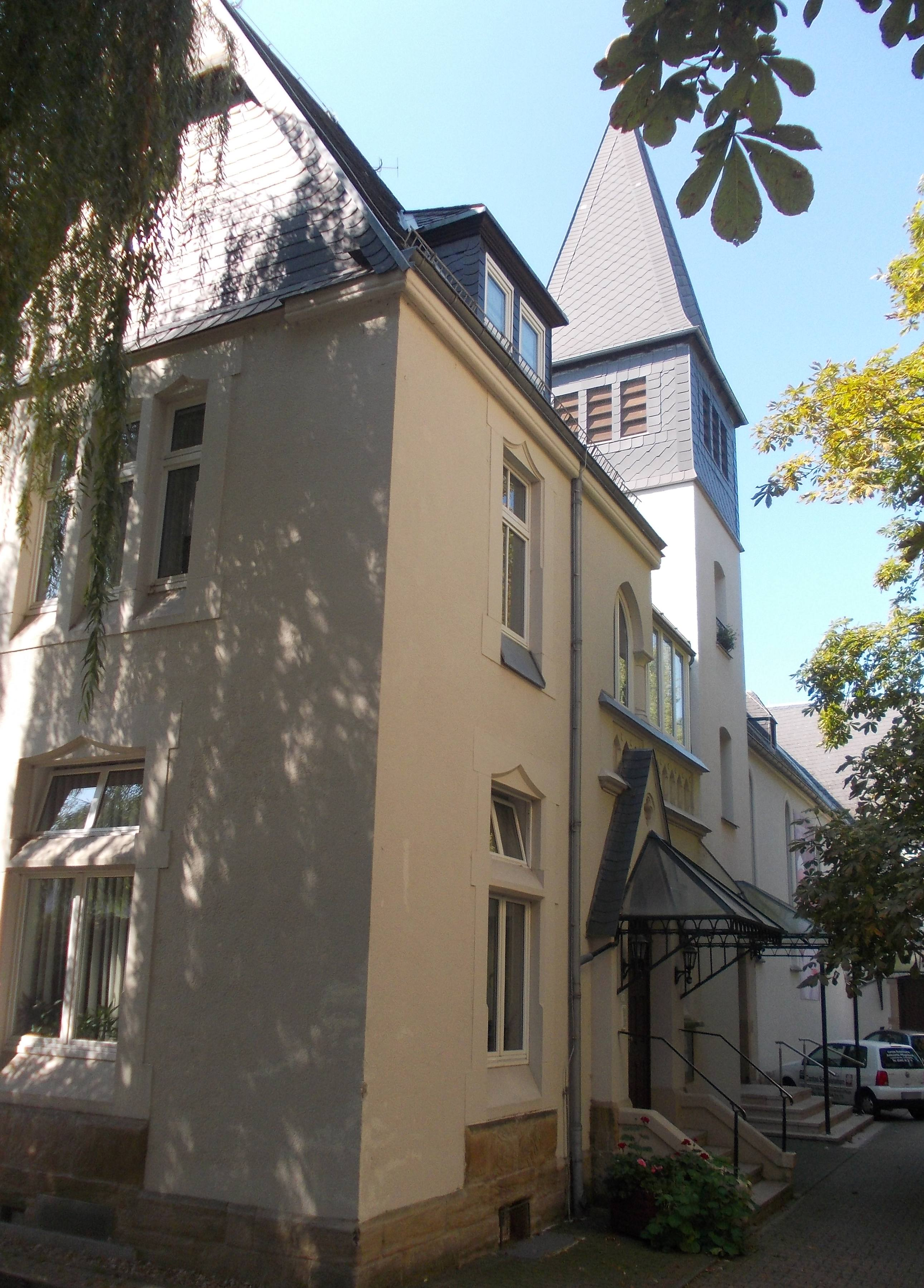 Roman Catholic St. Elisabeth Church in Weissenfels (district: Burgenlandkreis, Saxony-Anhalt)